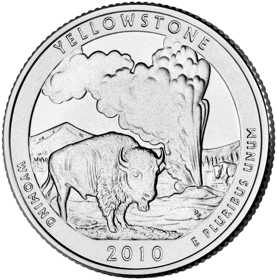 Second coin released in America the Beautiful Quarters Program. Released June 1, 2010